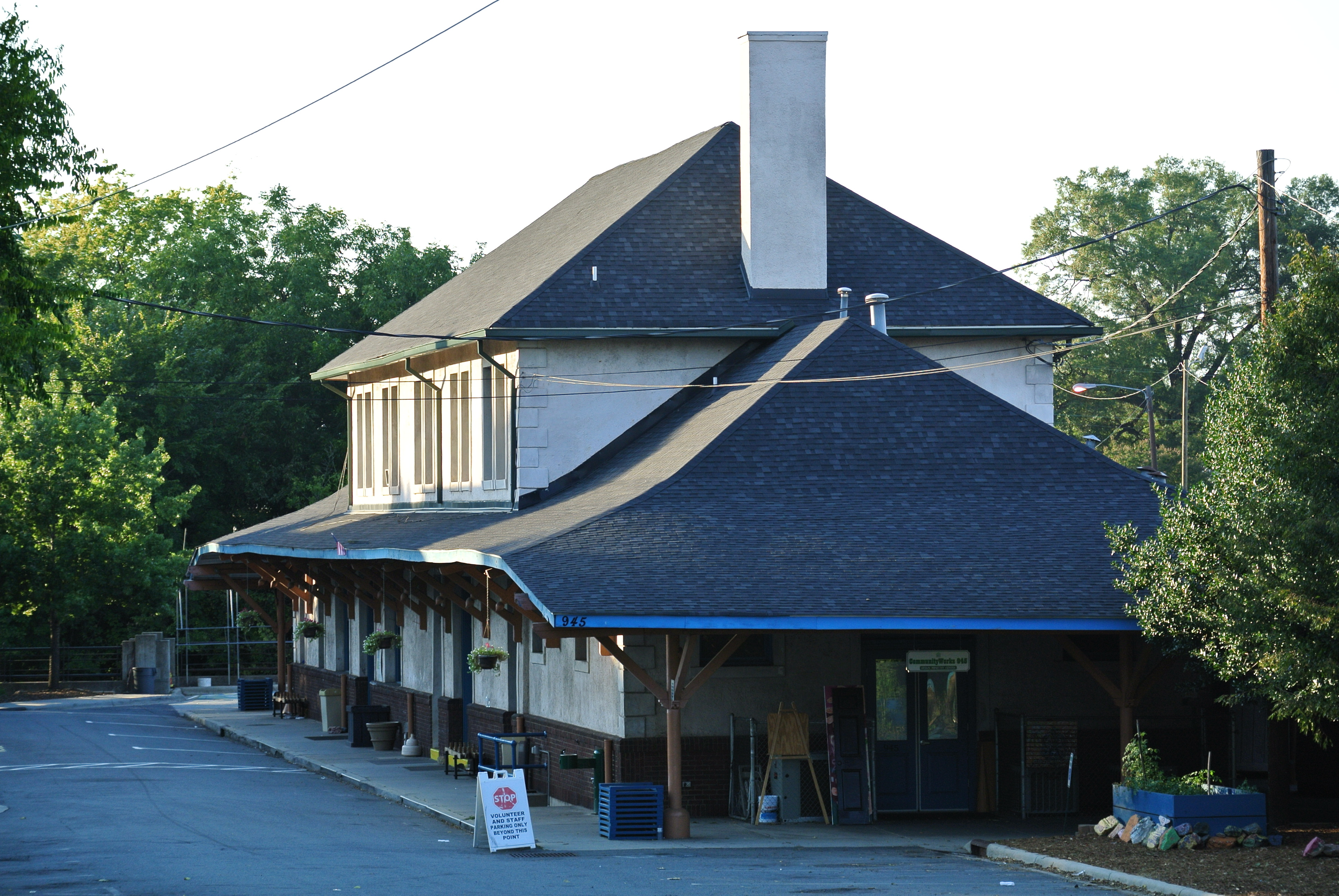 Seaboard Air Line Railroad Passenger Station, 1000 N. Tyron St., Charlotte